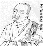 Chan master Mazu Daoyi old portrait